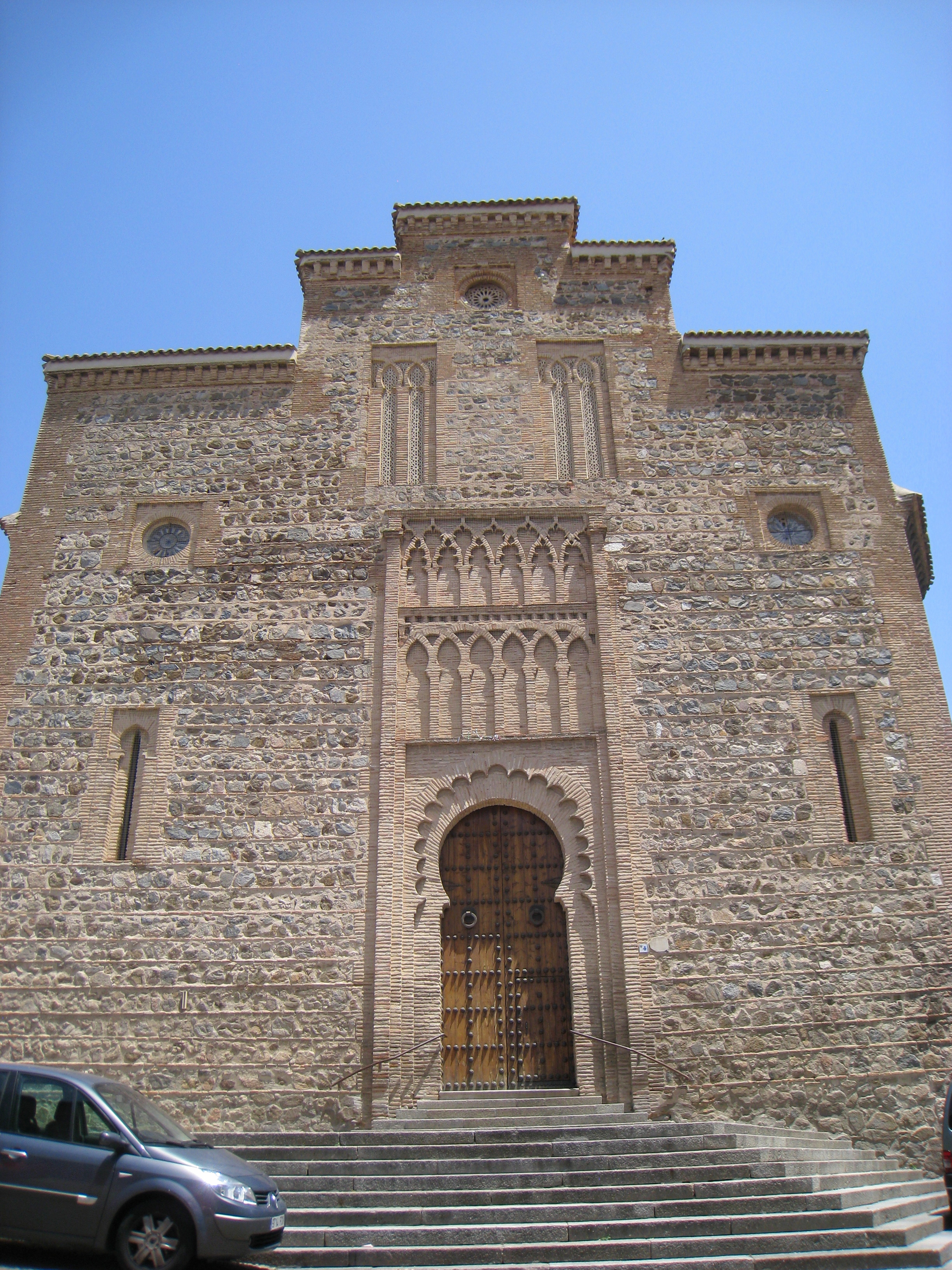 Church of Santiago del Arrabal, Toledo, Spain.